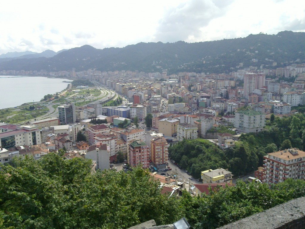 The city of Rize on the Turkish Black Sea coast